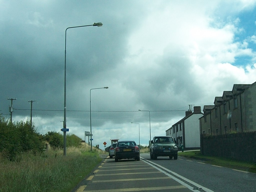 A narrow section of the N53 at Hackballs Cross cross roads